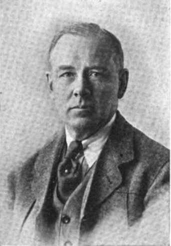 Portrait of Thomas W. Lamont, former banker and partner of J.P. Morgan & Co.